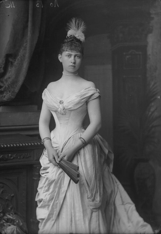 Sophia of Prussia by Alexander Bassano